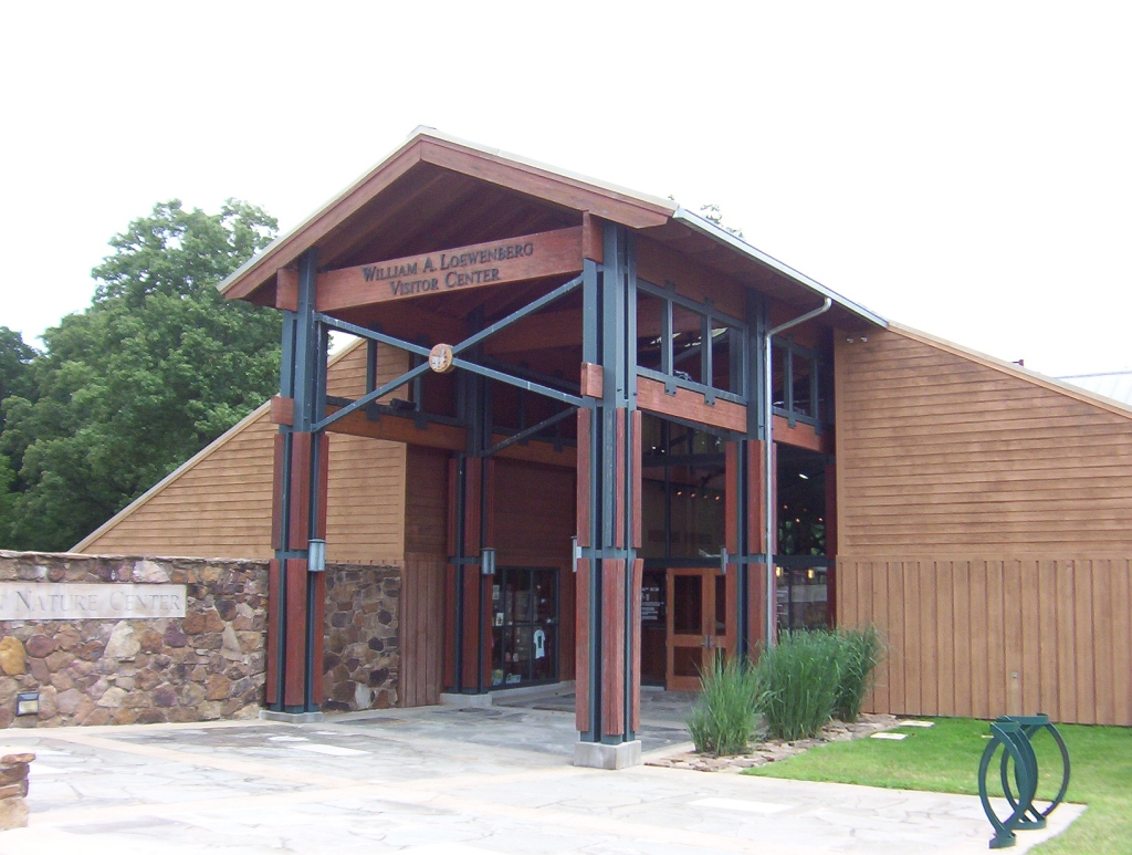 The Visitor Center at the Lichterman Nature Center in East Memphis, Tennessee. Building also houses the nature museum.